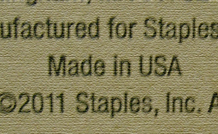 Made in USA label